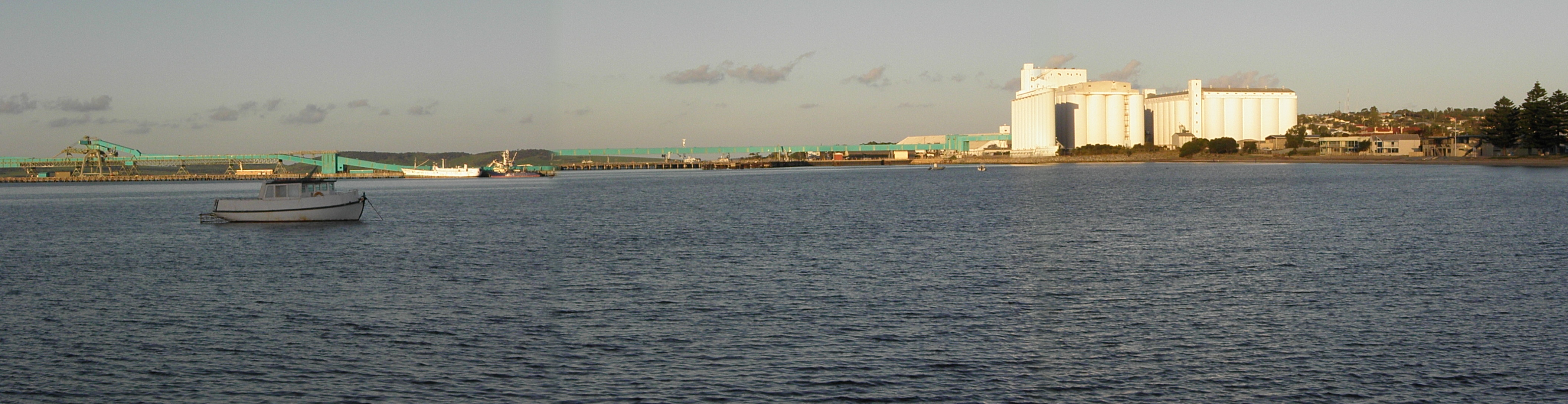 Port Lincoln Harbour